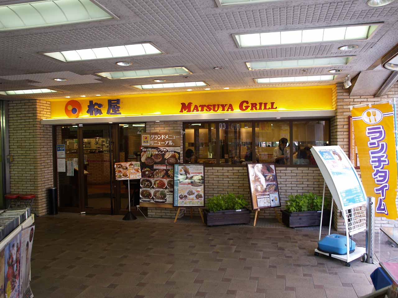 Matsuya Grill Nishidai shop. An experimental restaurant of Matsuya Foods, located in Takashimadaira, Tokyo.